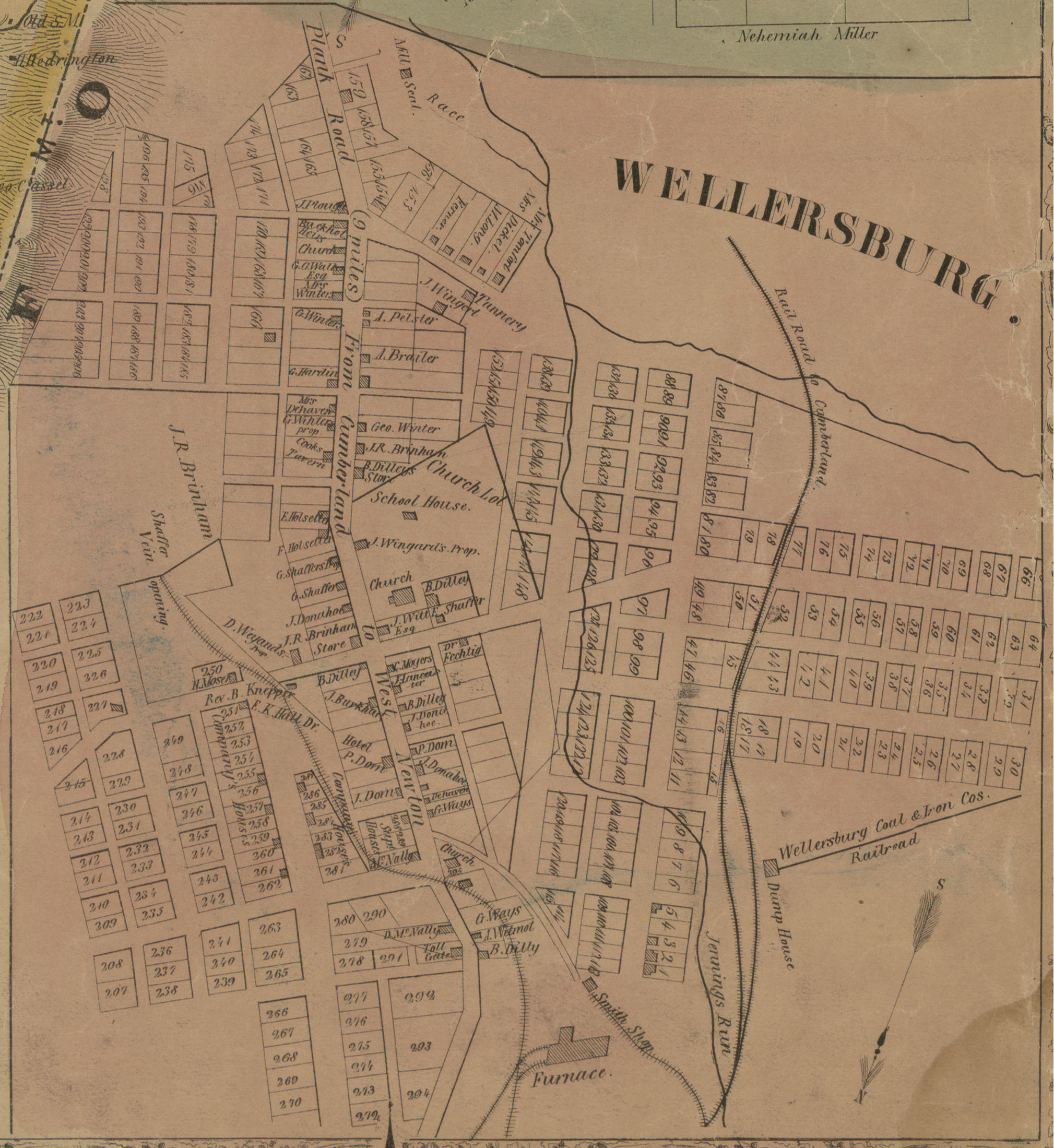 Map of Wellersburg taken from 1860 Edward L. Walker map of Somerset County, Pennsylvania, available at the Library of Congress website